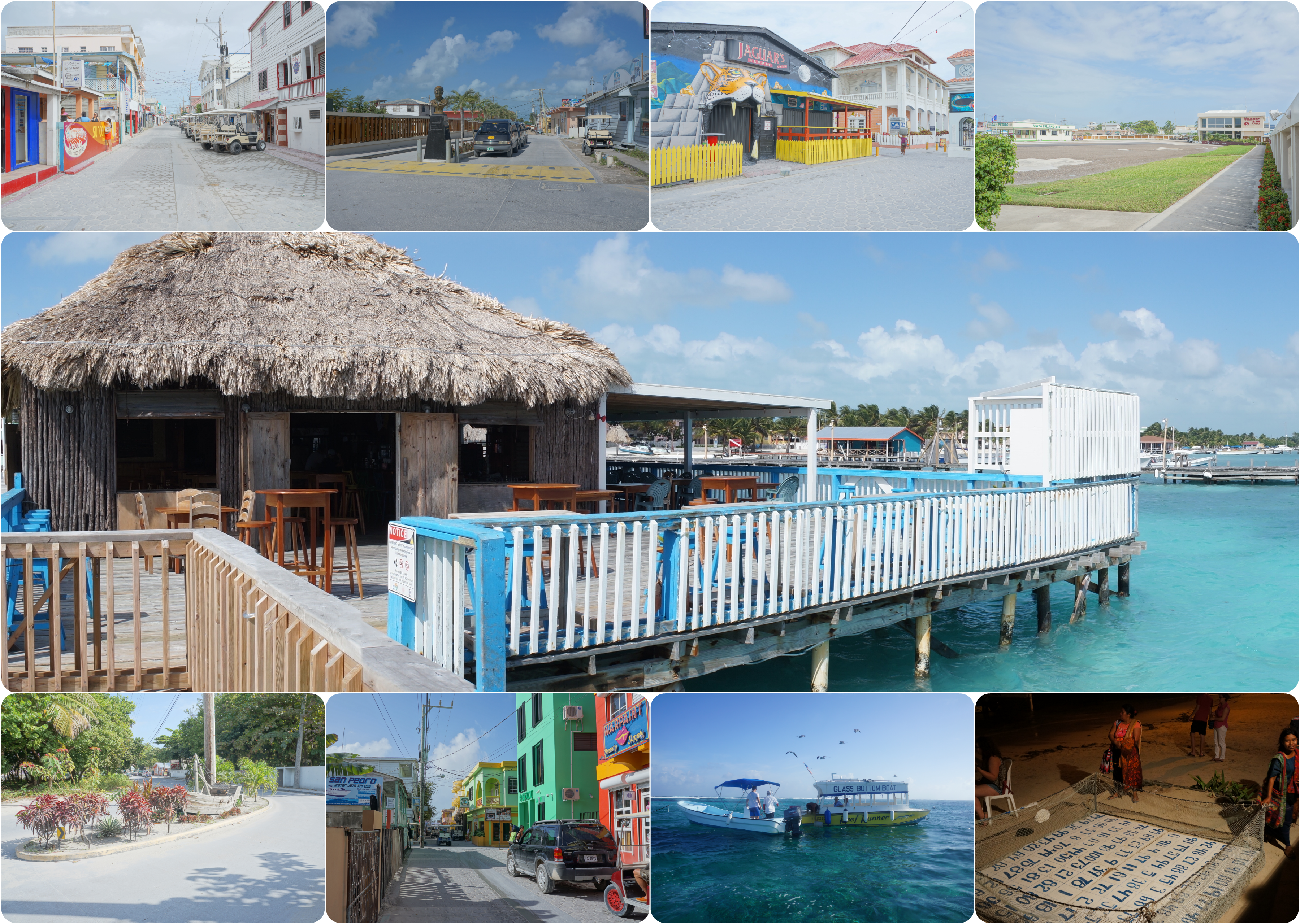 Photo montage of San Pedro Town, Belize